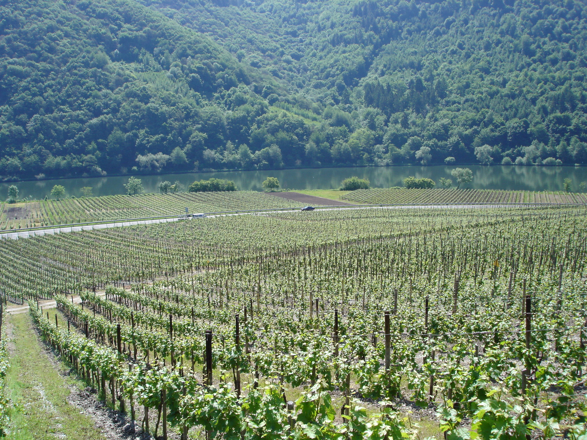 Vineyards south of Pôlich village